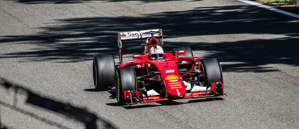 Sebastian Vettel at the 2015 Italian Grand Prix